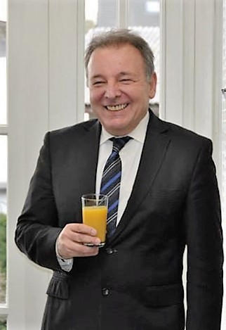 Andrej Šircelj